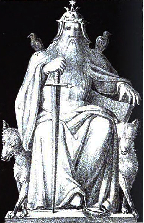 The caption for this illustration reads "Odin or Wodan". The artist is uncredited. Please replace with a higher quality version if possible. This version was taken from a low quality scan found in a PDF version of the source.